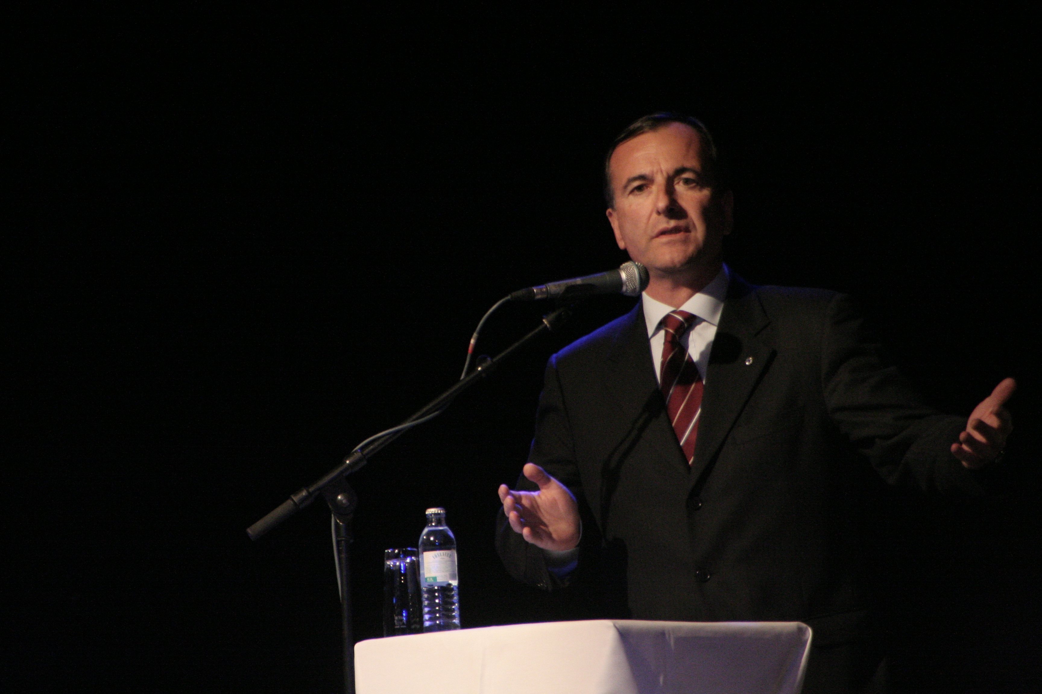 Franco Frattini at the opening ceremony of the 54th international session of the European Youth Parliament in Potsdam.